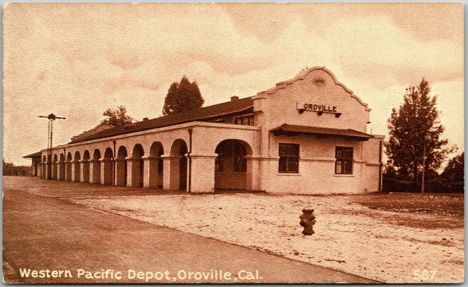 Early divided back postcard of Ororville station